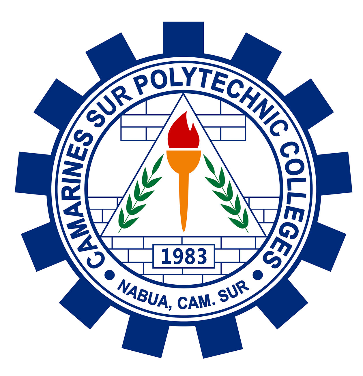 Camarines Sur Polytechnic Colleges Logo